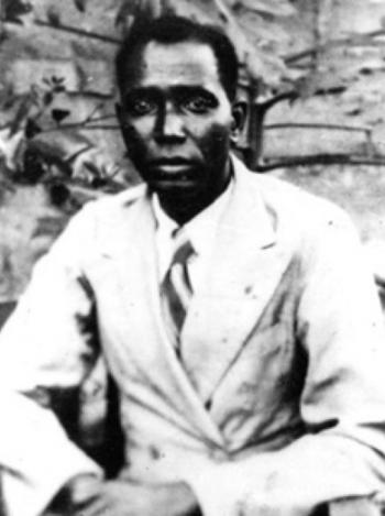 Albert Idohou (c. 1901 - 1941), French resistant in Western Africa, compagnon de la Libération